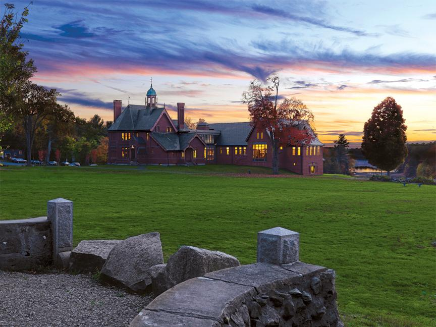 Harvard Public Library